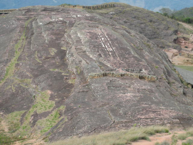 Description=El Fuerte, sitio pre-columbiano cerca de Samaipata, Bolivia Source=own work Date=2006-8-10 Author=Franz Barjak Permission=own work, public domain